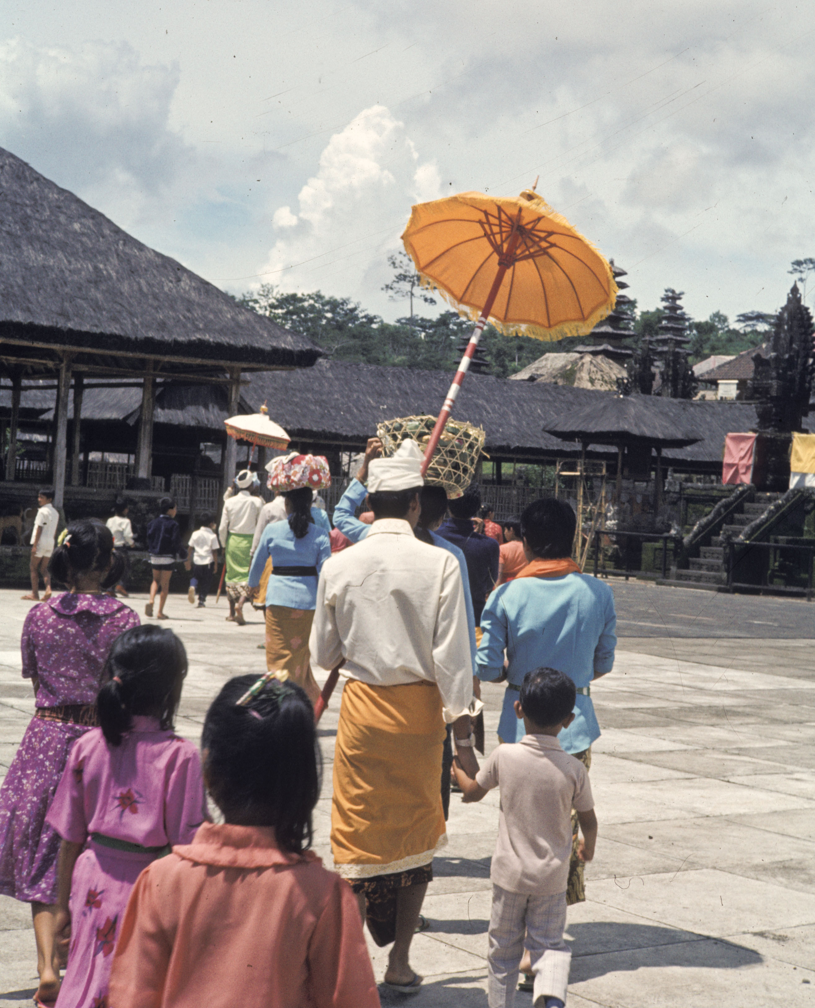 Image from Bali in 1981; locality details unknown